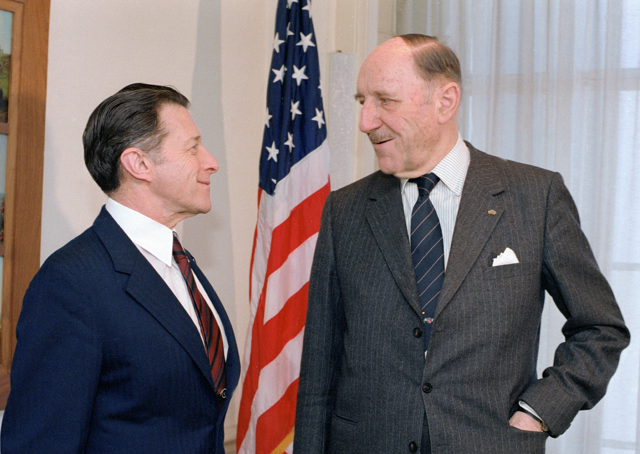 Secretary of Defense Caspar W. Weinberger meets with Secretary General of NATO Luns in the Pentagon, Room 3E912.